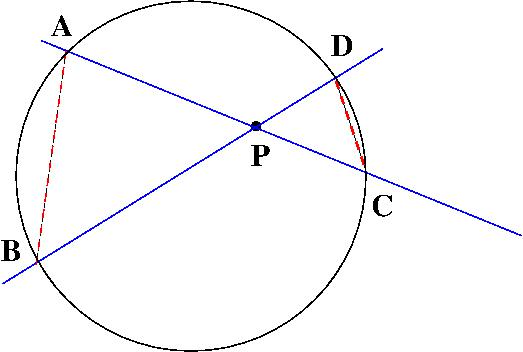 Power of point inside a circle